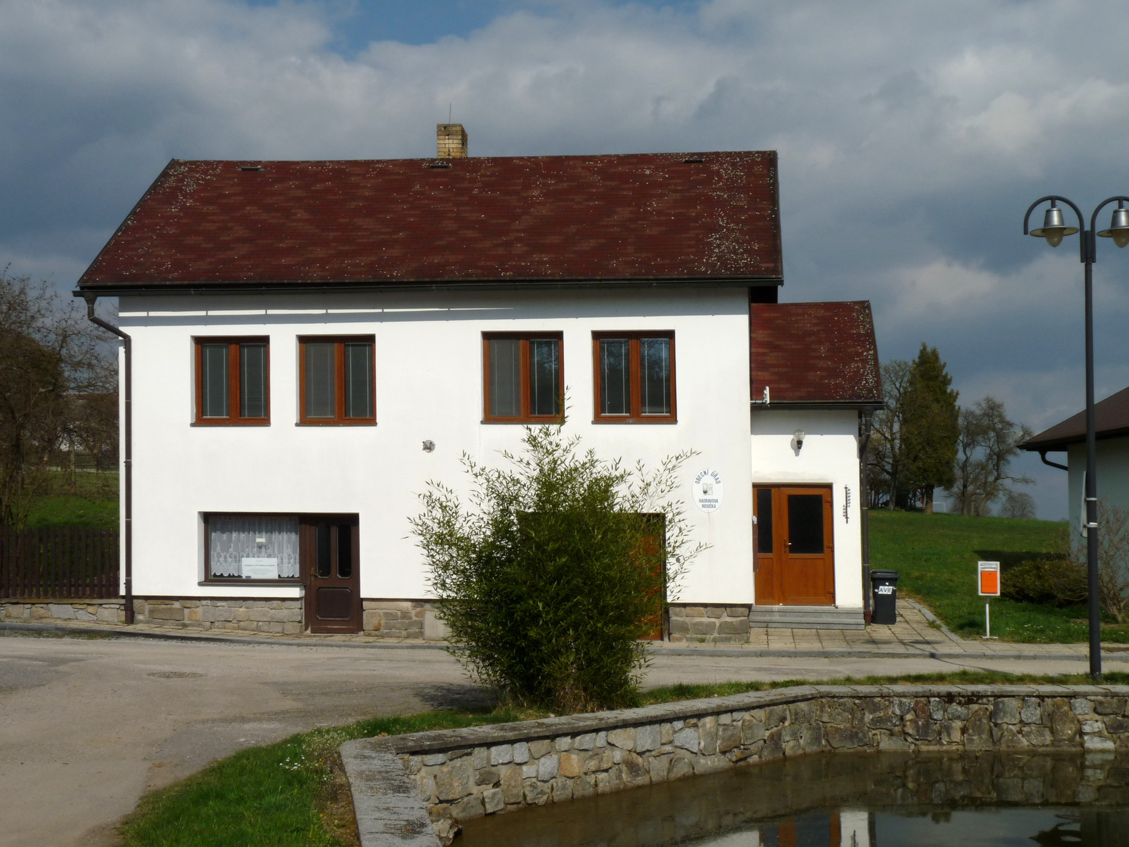 House No 9 in the village of Hadravova Rosička, Jindřichův Hradec District, South Bohemian Region, Czech Republic.